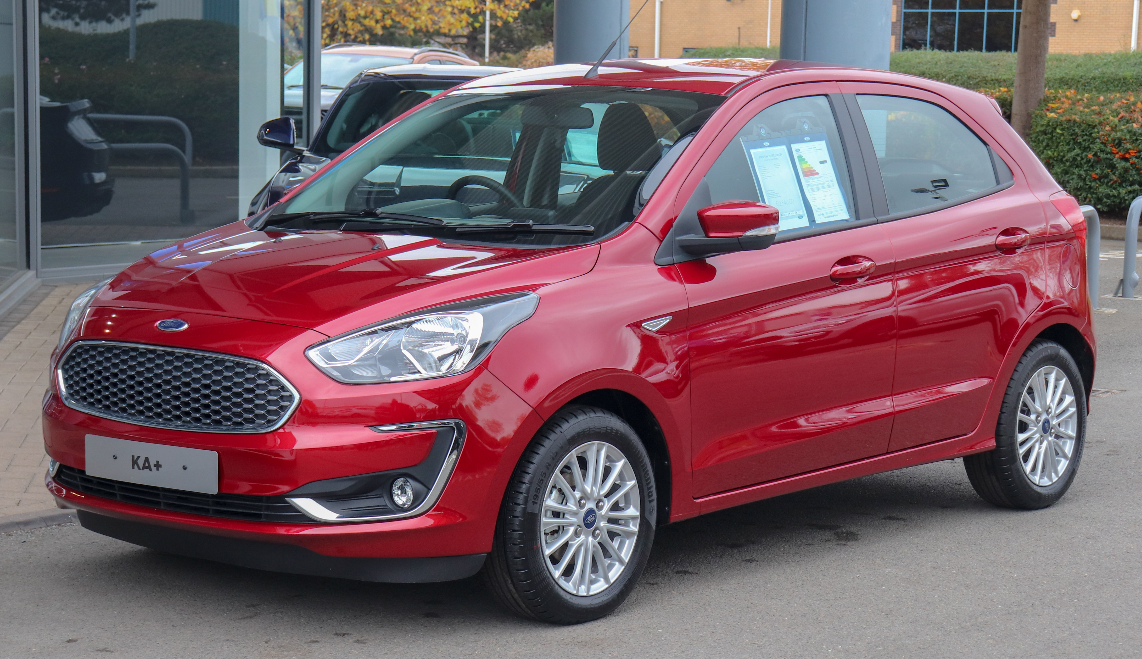 2018 Ford KA+ Zetec 1.0 Front Taken in Lemaington Spa